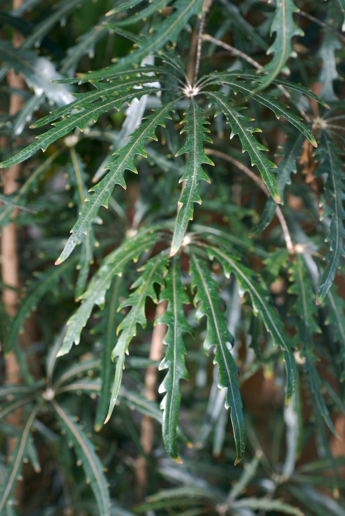 Schefflera elegantissima Photographed at the Conservatory of Flowers, San Francisco